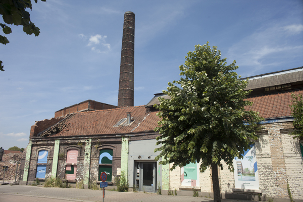 Dijkstraat. Oudenaarde. Oost-Vlaanderen. Belgium. . . Europe|Belgium; Europe|Belgium|Oost-Vlaanderen; Europe|Belgium|Oost-Vlaanderen|Oudenaarde. Ref: PM_117261_B_Oudenaarde. Photo: Paul M.R. Maeyaert. . © Paul M.R. Maeyaert